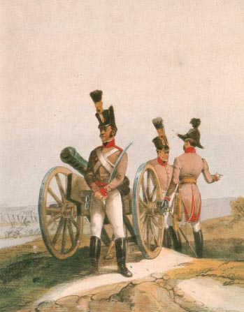 Field-Artillery of Austria-Hungary